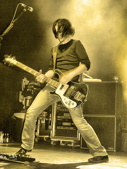 Paul Wilson performing with Snow Patrol at The ABC, Glasgow on 1 May 2006.